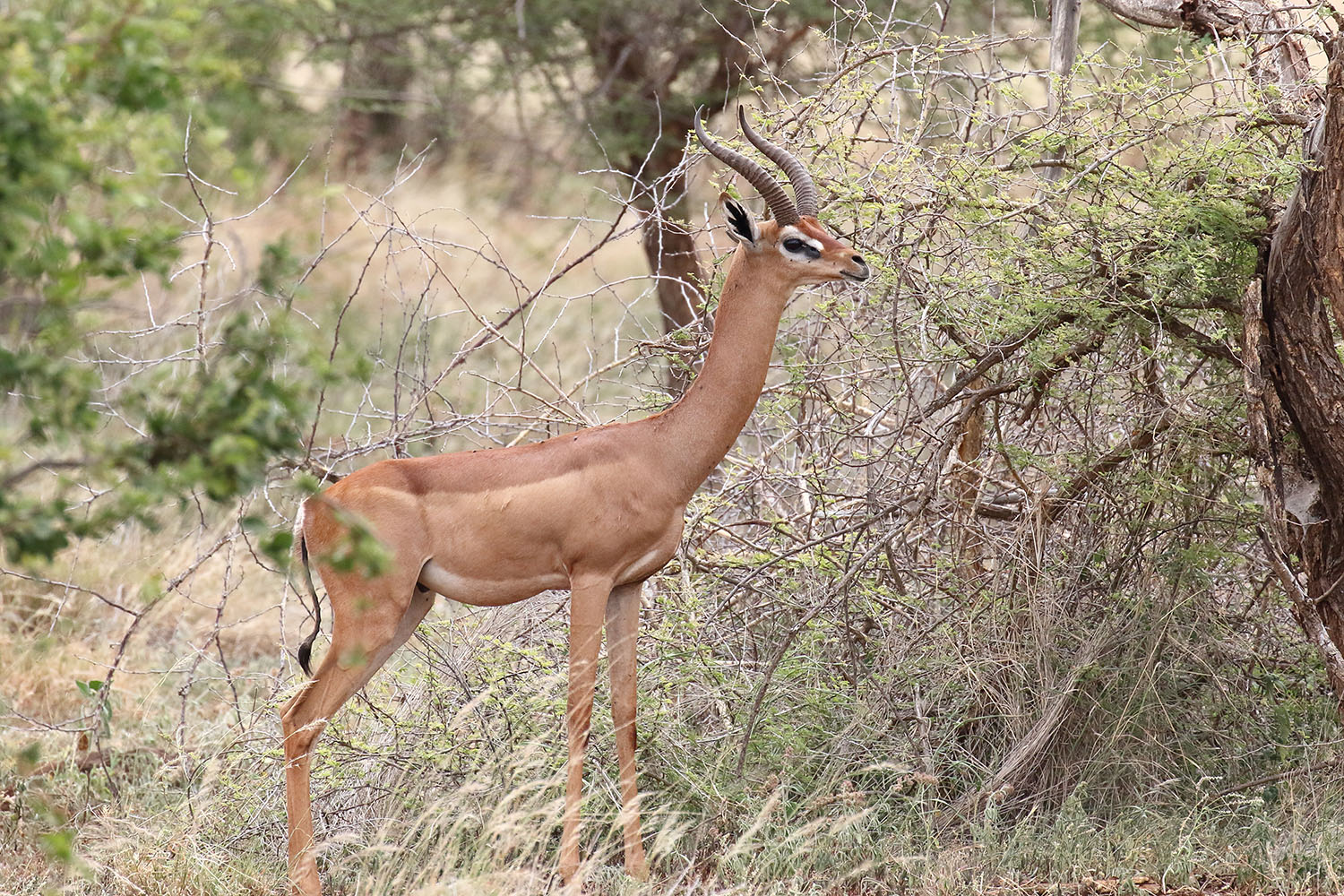 Gerenuk, Meru, Kenya